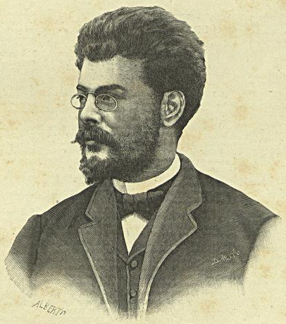 D. João Gonçalves Zarco da Câmara (1852-1908), Portuguese aristocrat and playwright.